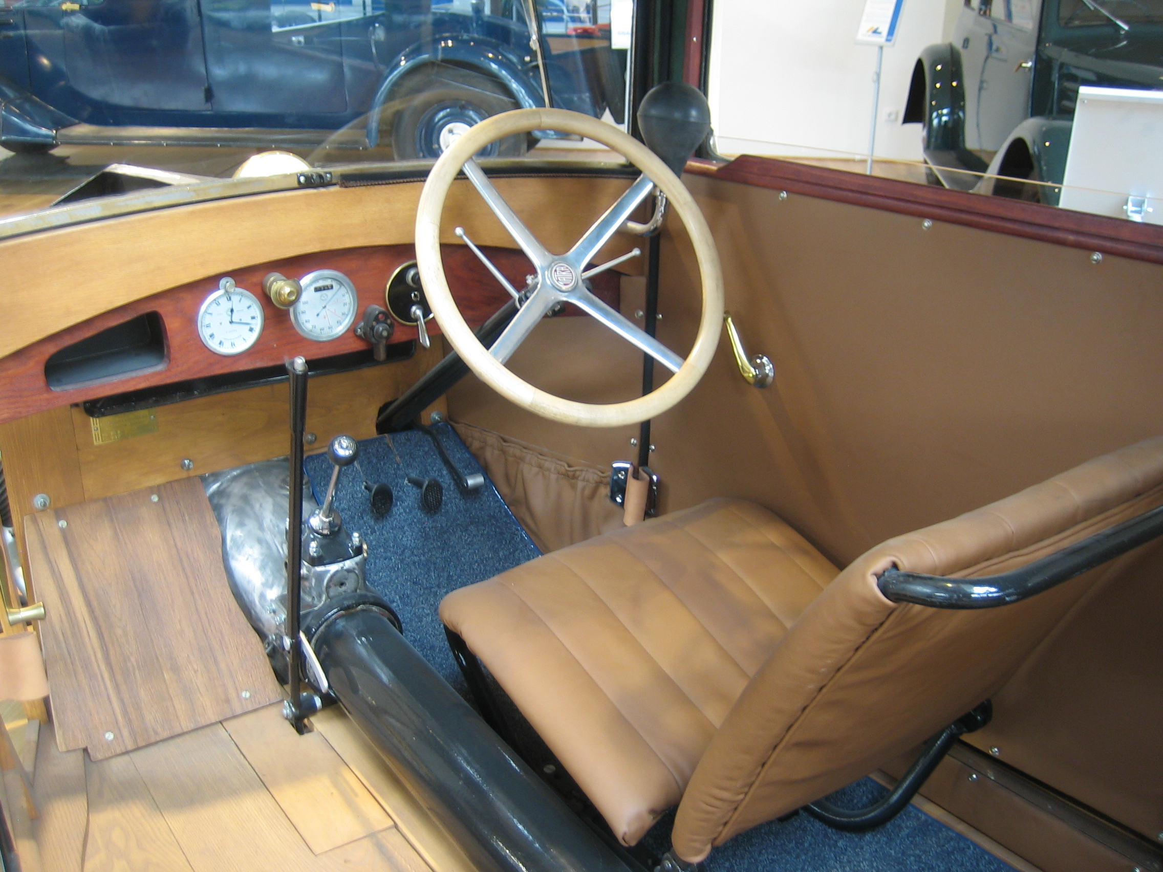 Tatra 12 interior - half cut